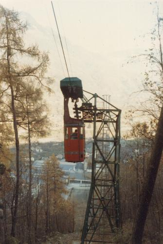 Self-powered cabin of a Josefesberg cabla car in Algund (Algondo, South Tyrol, Italy). Each cabin had its own VW engine on top, thus could be used by its passenger without 3rd party help.